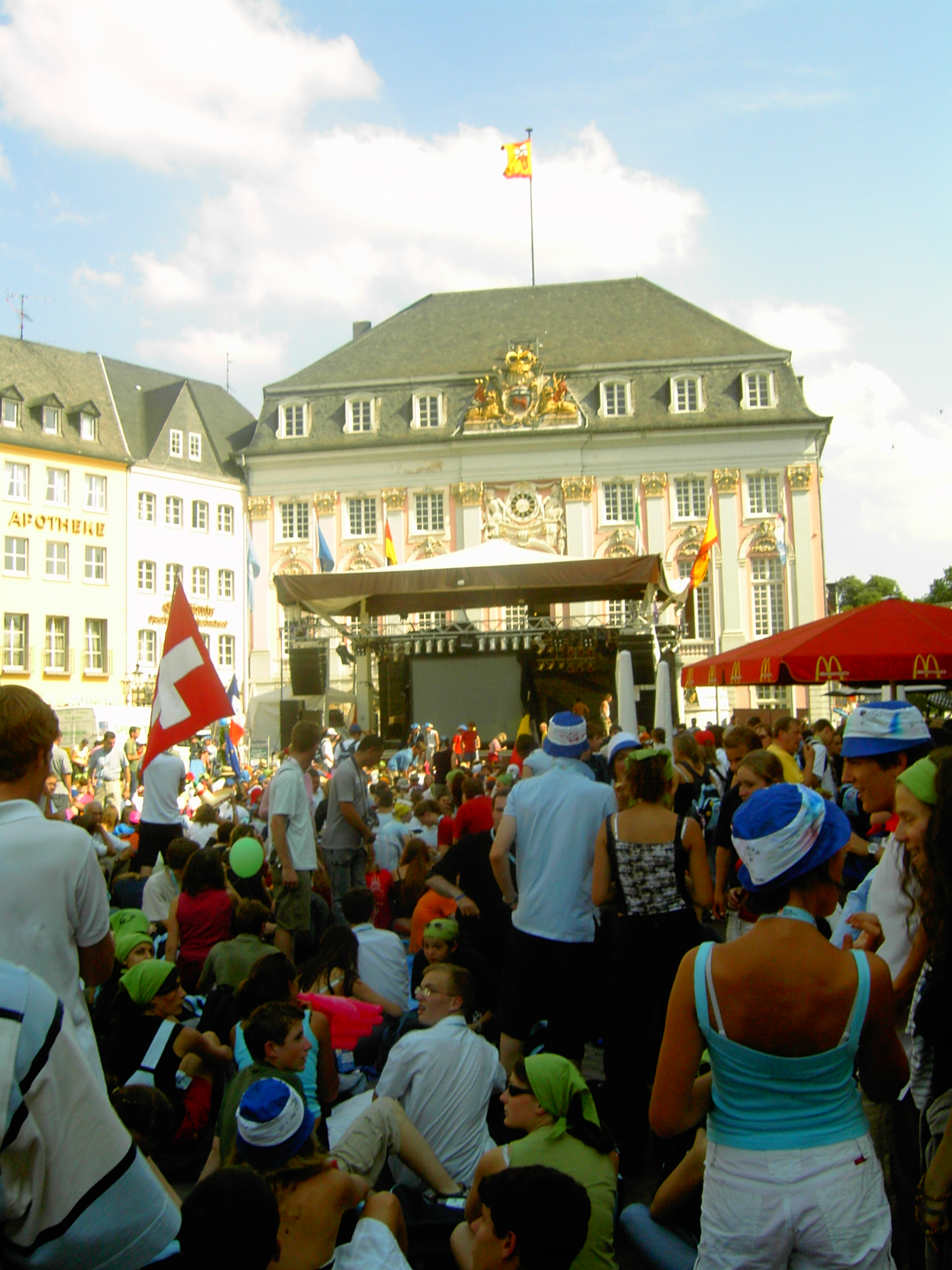 People on Bonn's marketplace watching the Pope's visit to Germany on a big screen